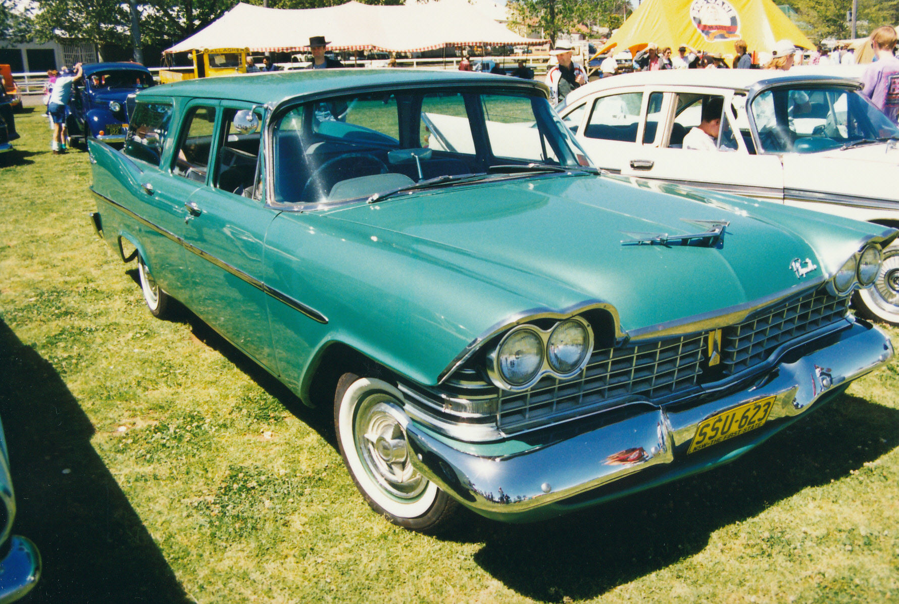 1959 Plymouth DeLuxe Suburban 4-door. This image is a scan of a 35 mm print taken at the All Chrysler Day at Camden, NSW in 1993